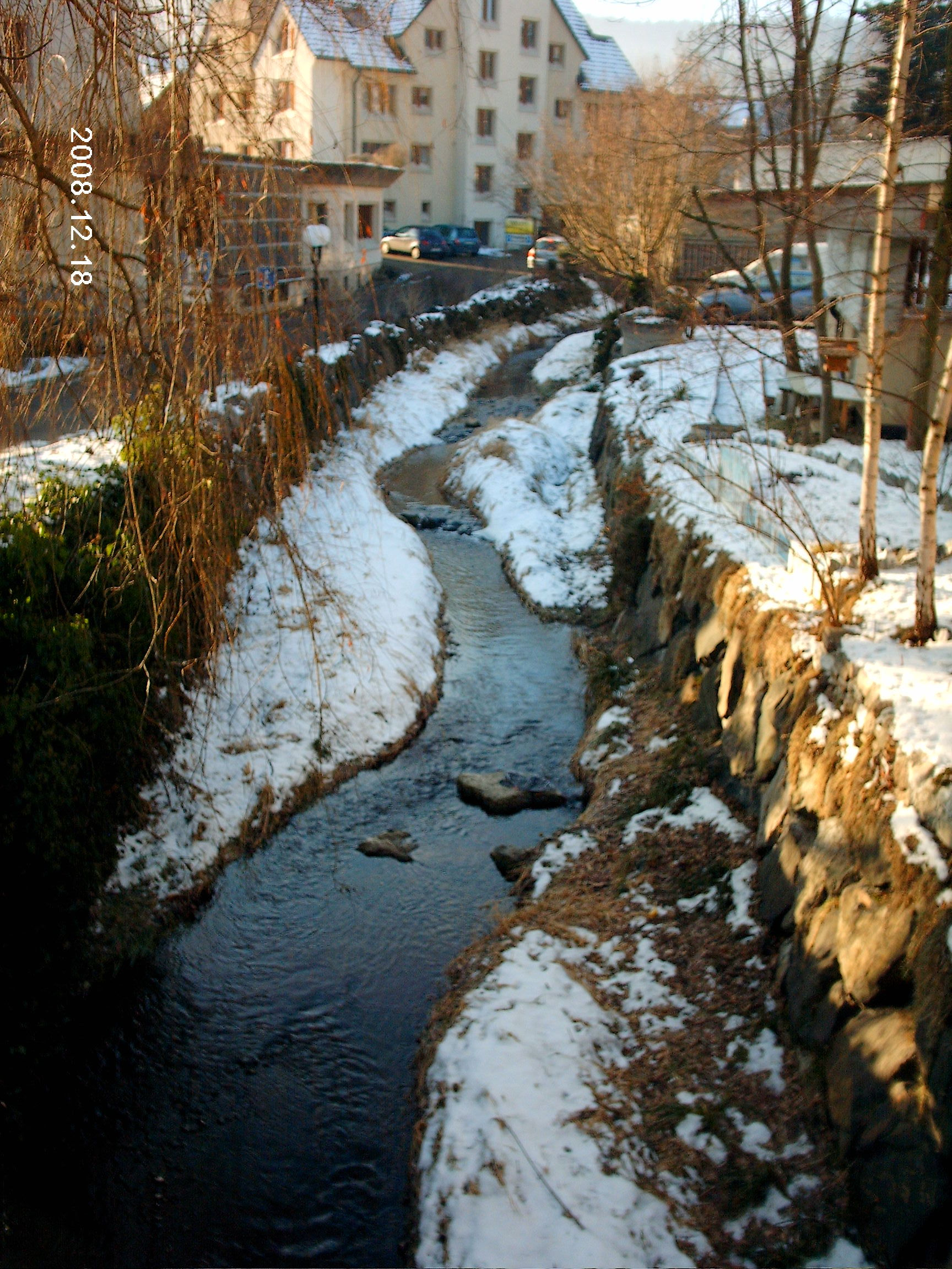 River Uze in Oberuzwil